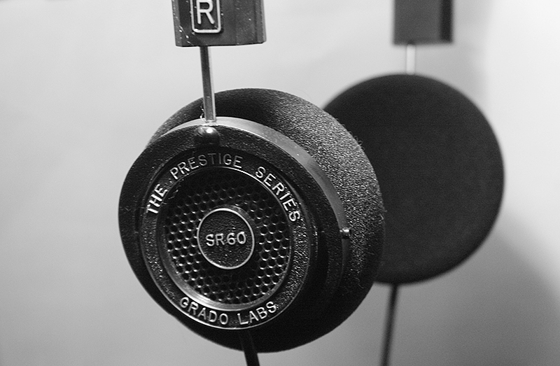 A picture of a pair of Grado SR-60 headphones used to illustrate the design of "supra-aural" (on the ear) headphones in the article Headphones.